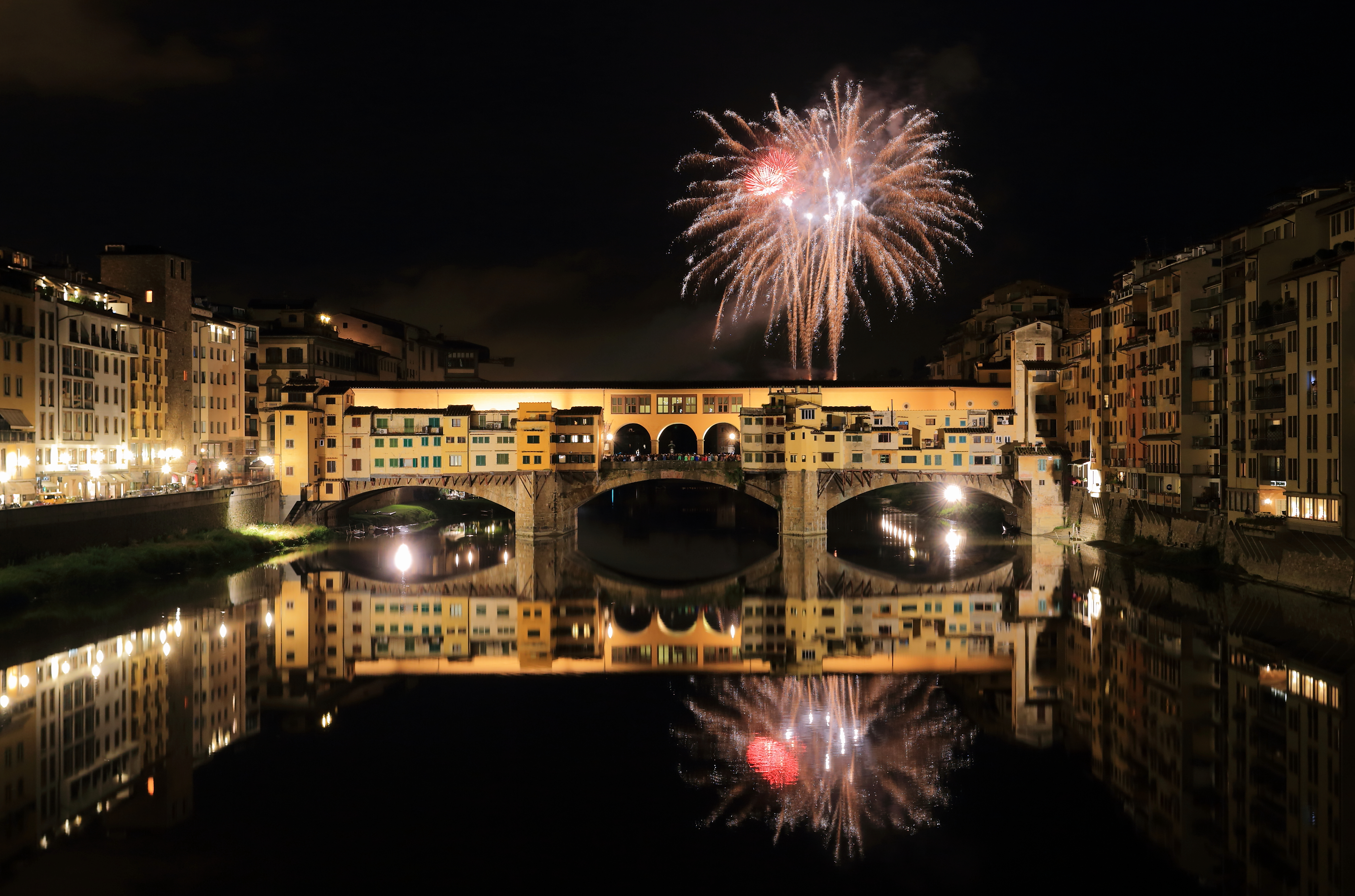 Fireworks over Ponte Vecchio in Florence, Italy, part of UNESCO World Heritage Site Ref. Number 174